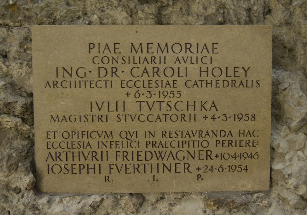 Krypta (Salzburger Dom) room 4: tablet to the architects